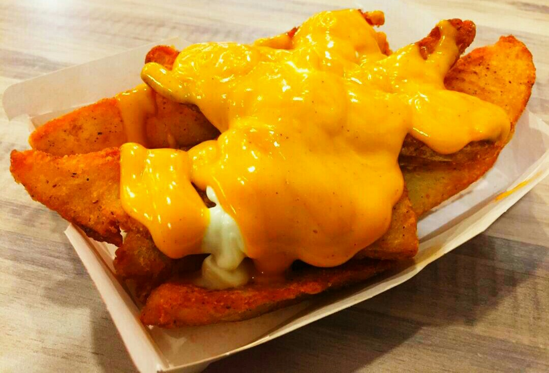 KFC Cheesy Potato Wedges in Malaysia.